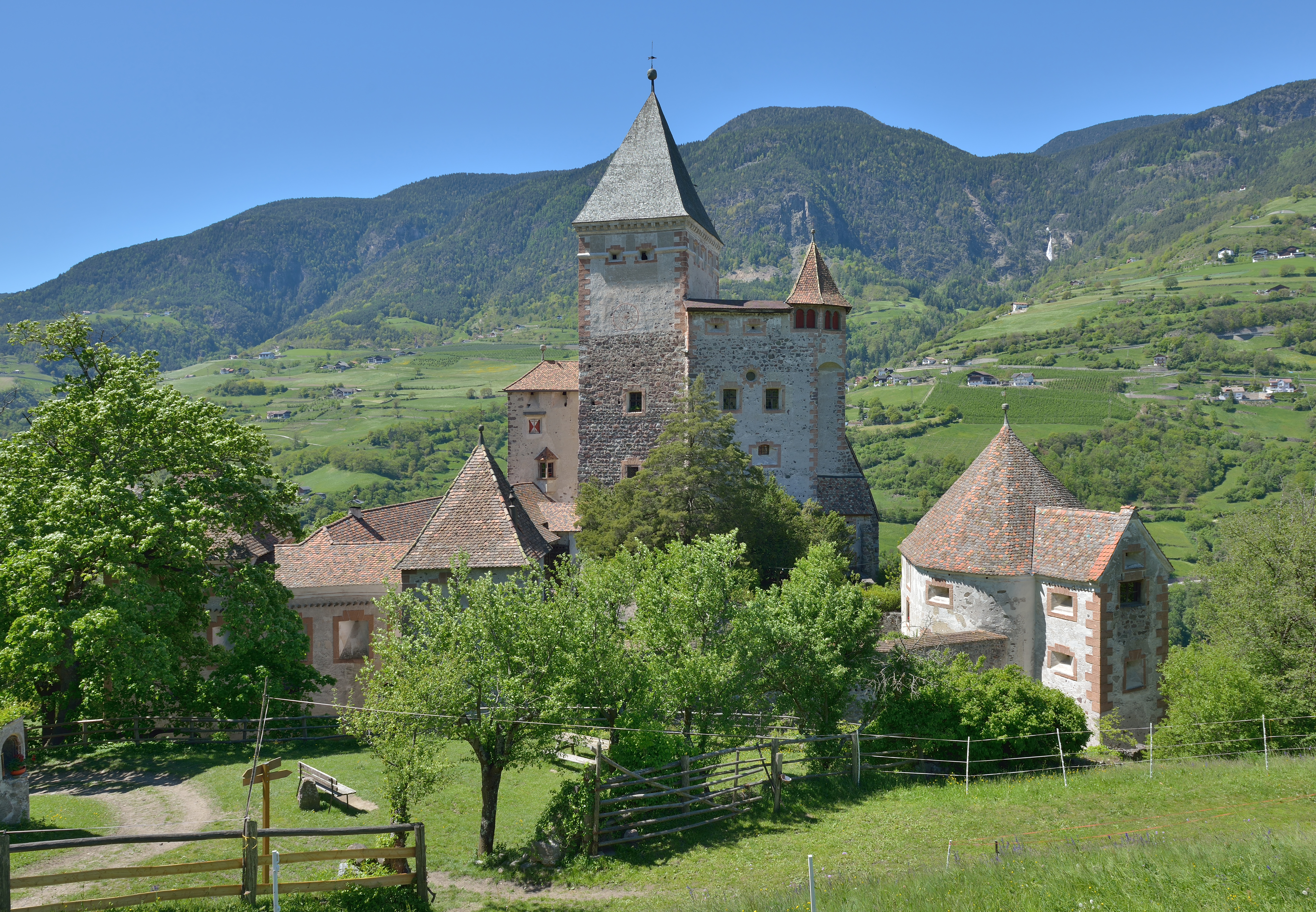 The castle Trostburg in Waidbruck, South Tyrol - East face